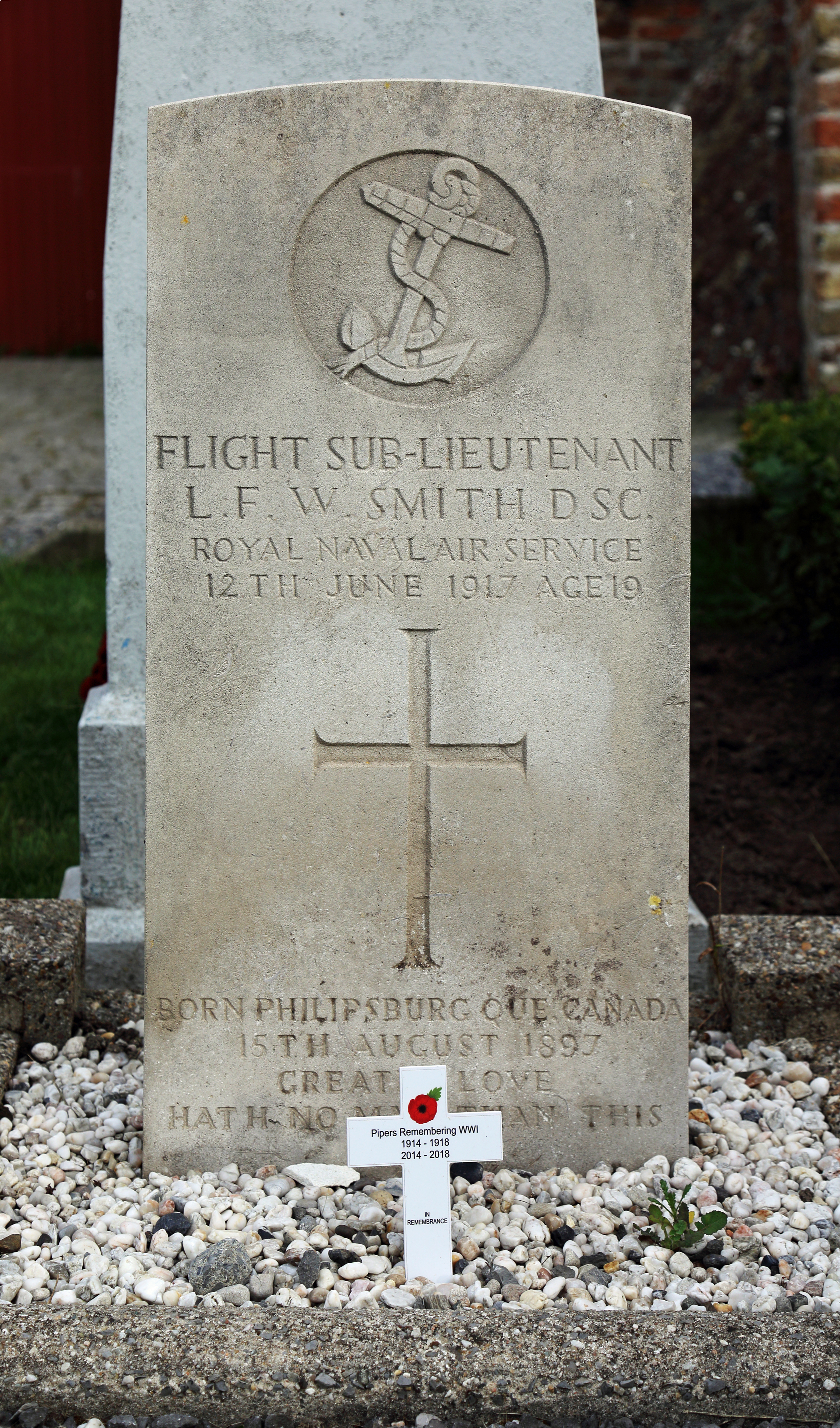 Houtave (municipality of Zuienkerke, Belgium), cemetery: Commonwealth War Graves Commission headstone of Langley Sub/Lieut Frank Willard Smith, RNAS, Canadian World War I flying ace, killed aged 19 near Bruges in 1917